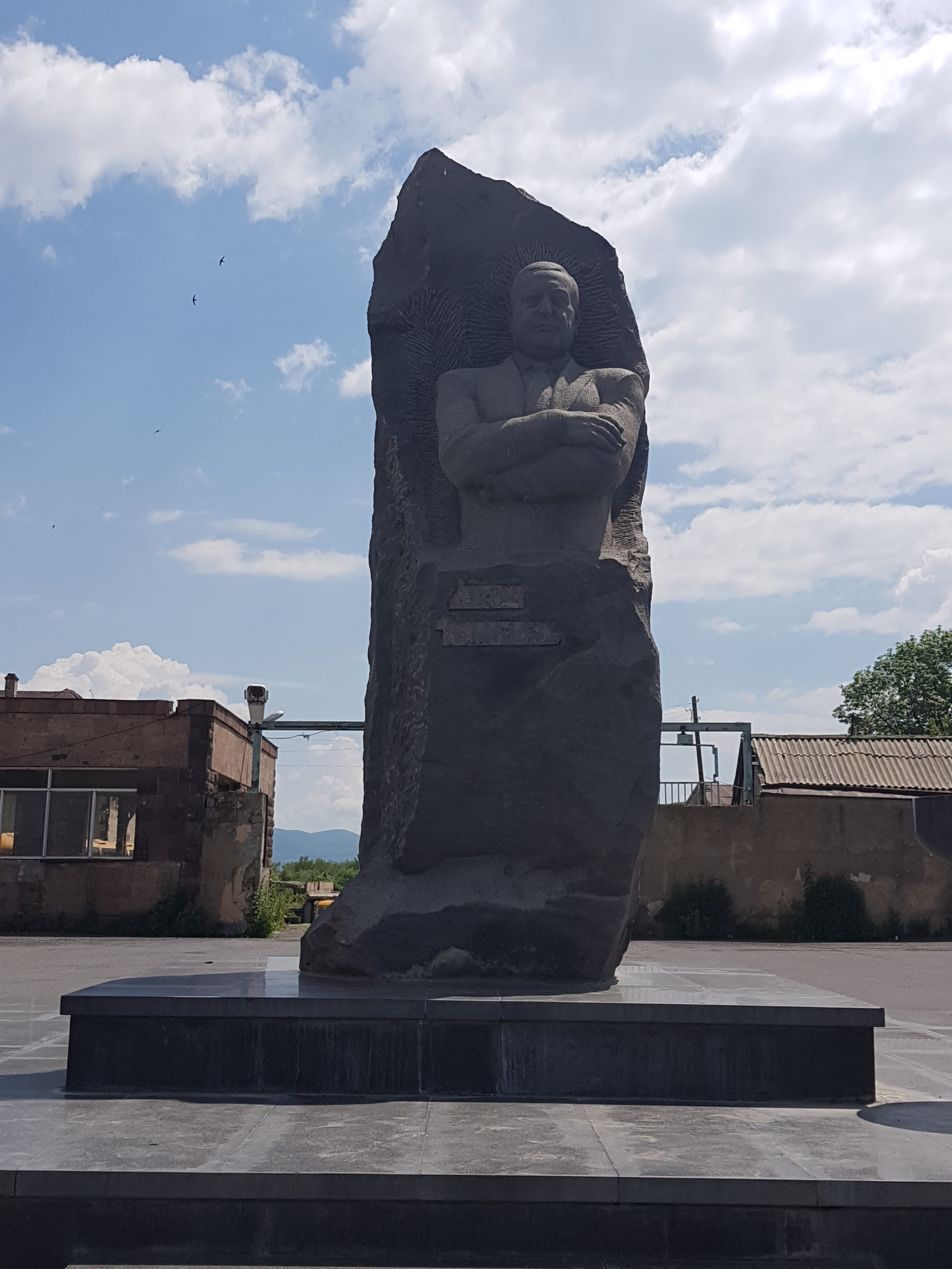 Henrik Danielyan's Monument in Sevan